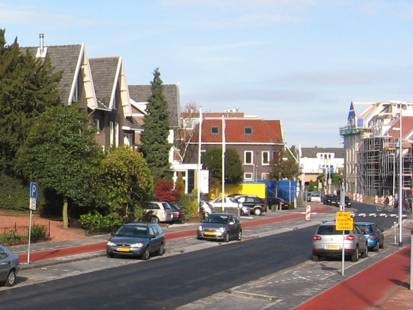 Brinklaan, Bussum